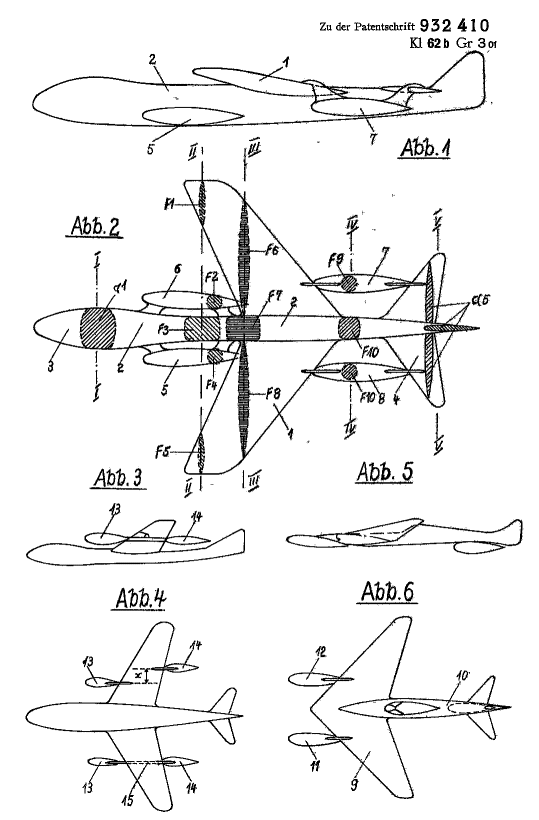 Drawings from page 5 of the area rule patent. DE 932410 Page 5, Area Rule Patent March 1944